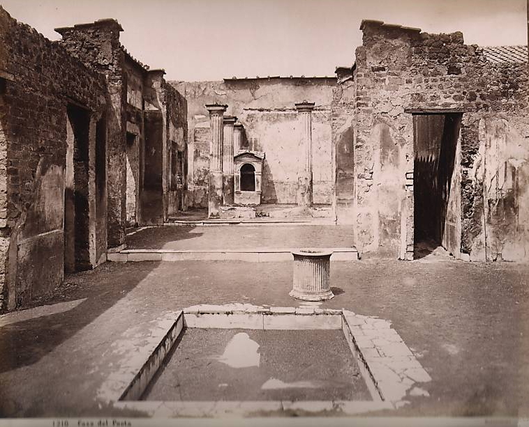 Giorgio Sommer (1834-1914), "Pompei - House of the Tragic Poet". Catalogue # 1210.